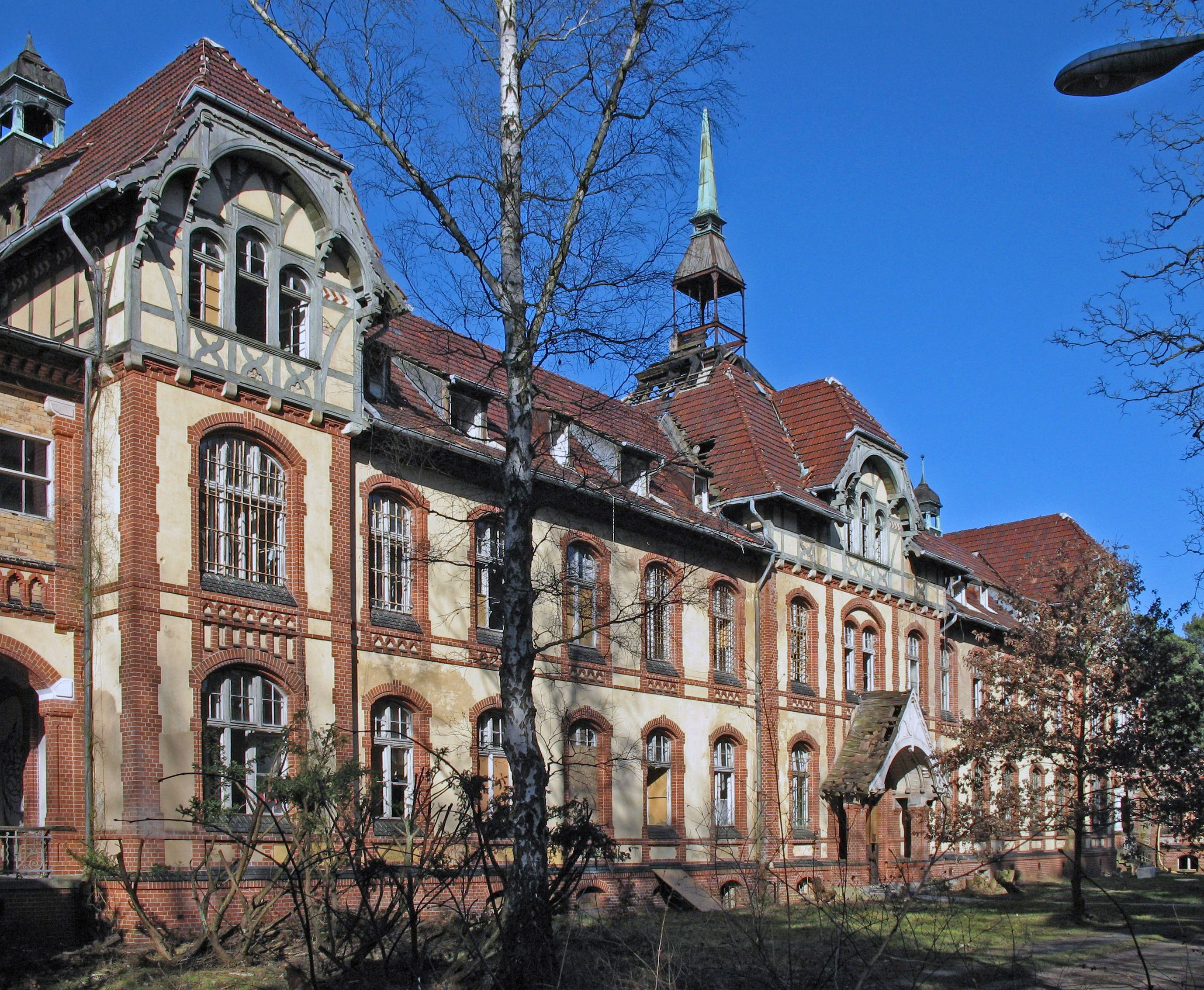 Former sanatorium for consumptives in Beelitz-Heilstätten in Brandenburg, Germany